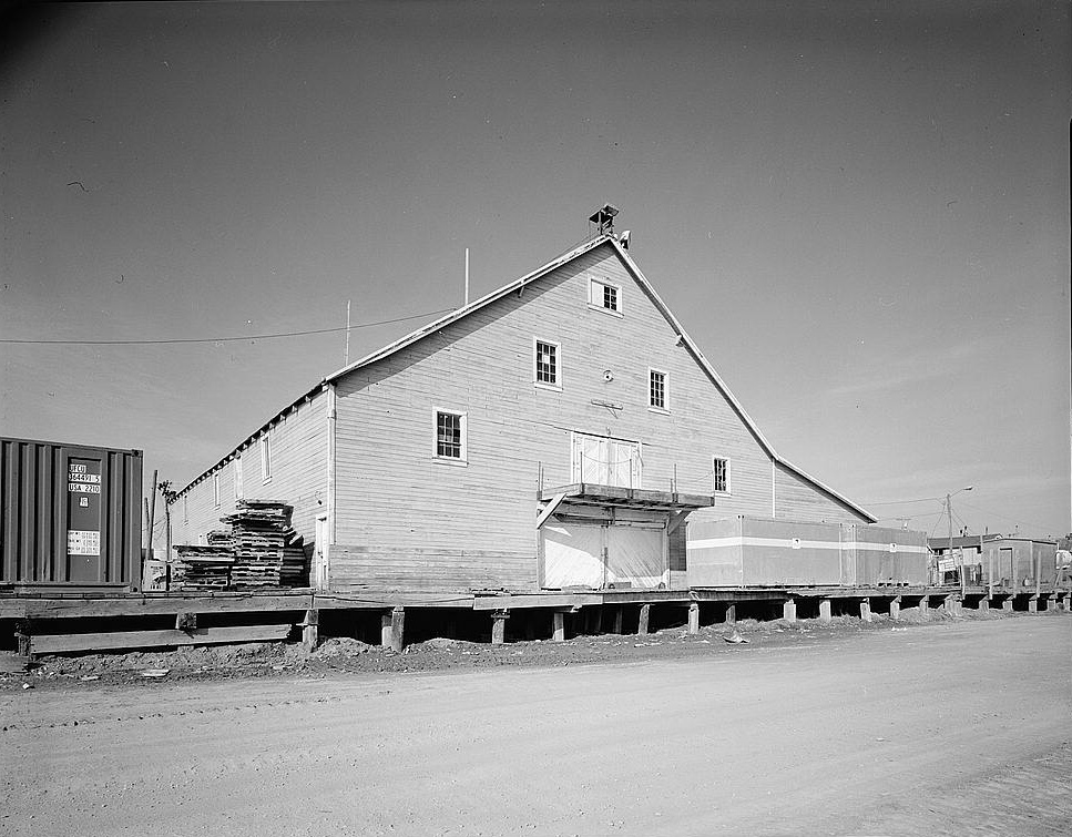 WAREHOUSE (LOMEN COMMERCIAL COMPANY, ARCTIC LIGHTERAGE), RIVER ST WEST OF E ST., LOOKING NORTH